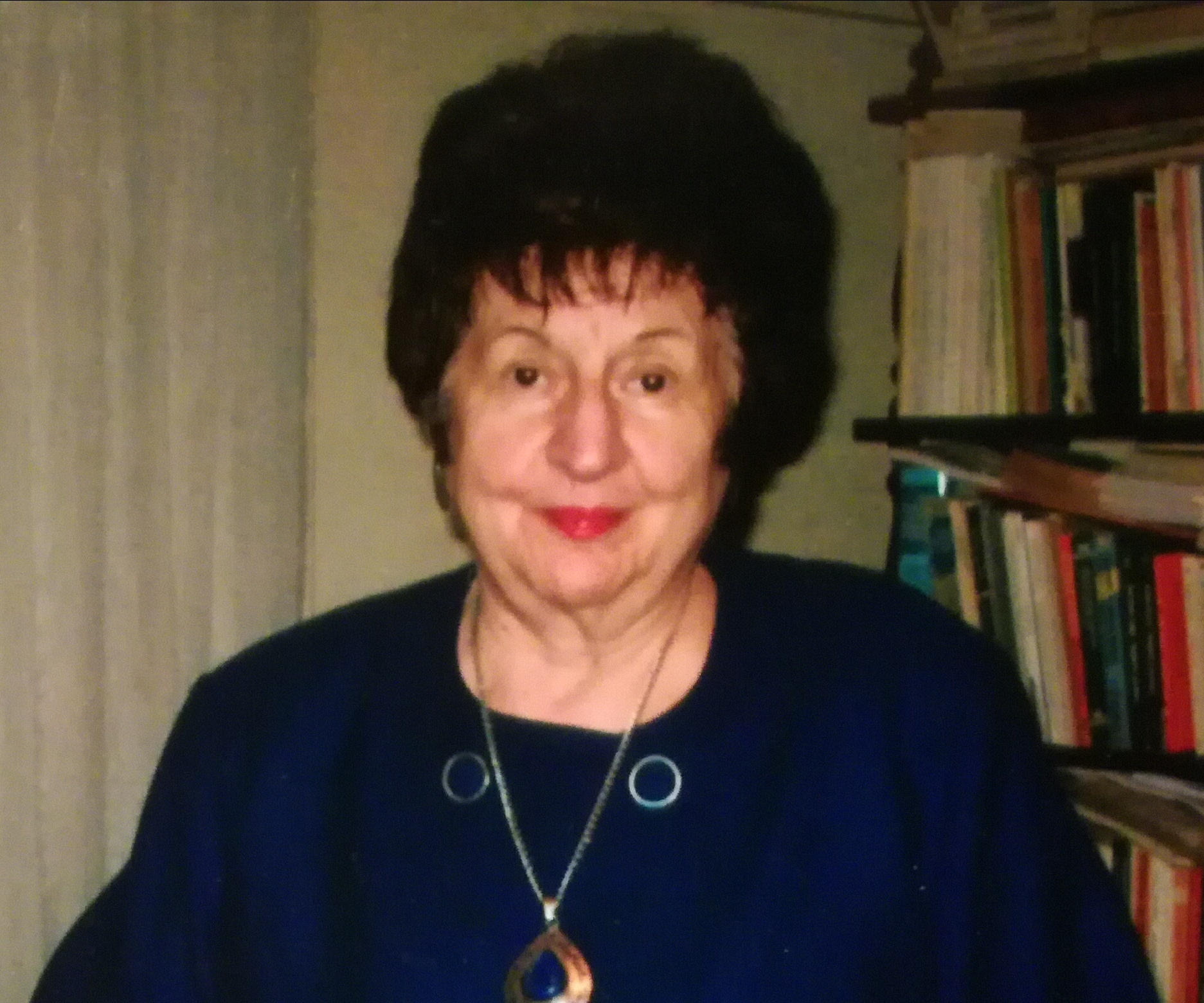 Ileana Čura (1930—2016), Serbian philologist and anglicist, professor at the University of Belgrade. Српски (ћирилица): Проф. др Илеана Чура, професорка енглеског језика и књижевности Филолошког факултета у Београду.